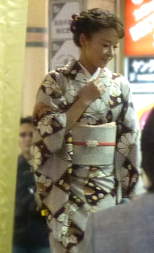 Enka singer Kumi Iwamoto (performing in Kashiwa, Chiba)